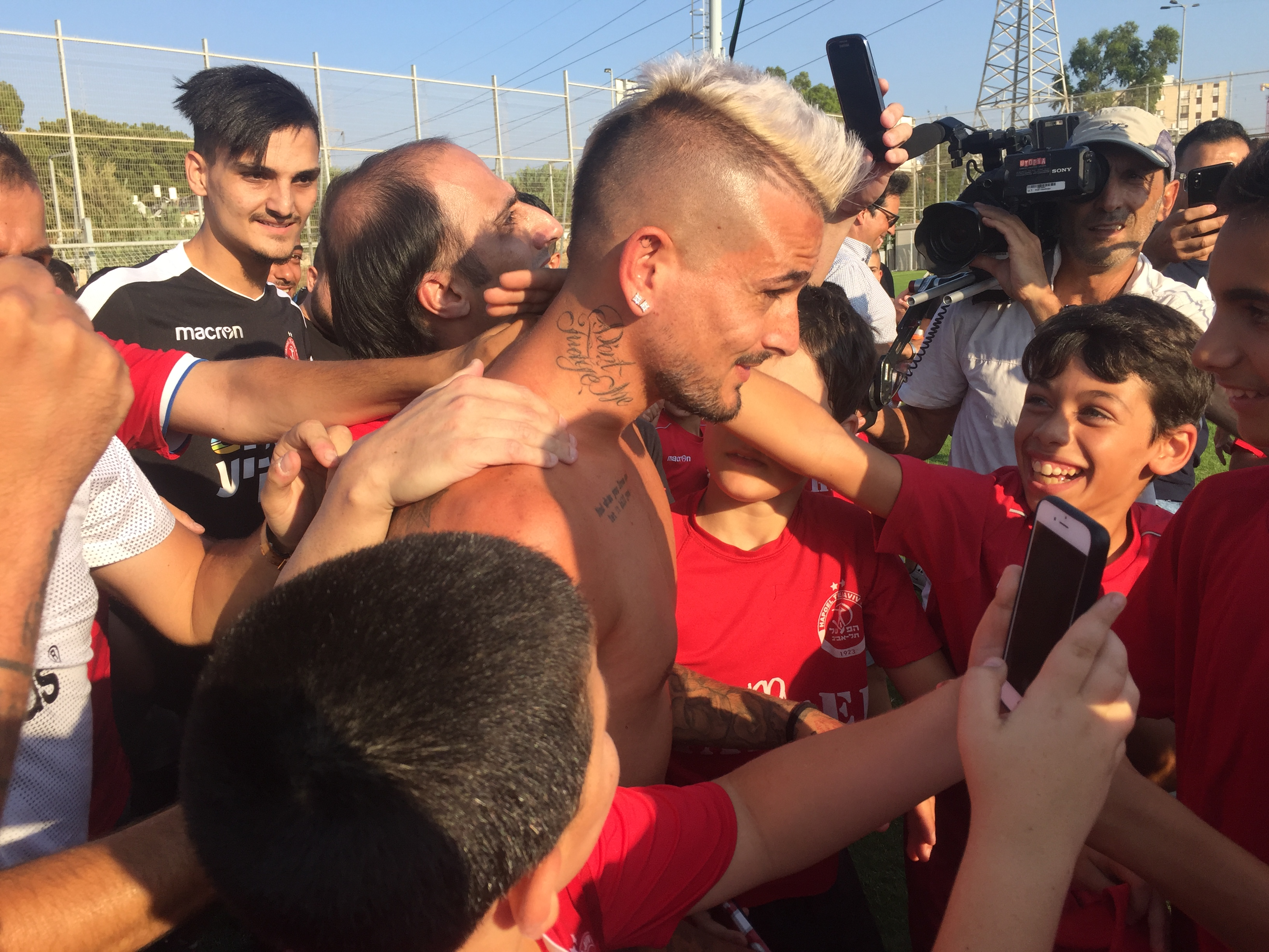 Hapoel Tel Aviv FC Player Maor Buzaglo, June 2019